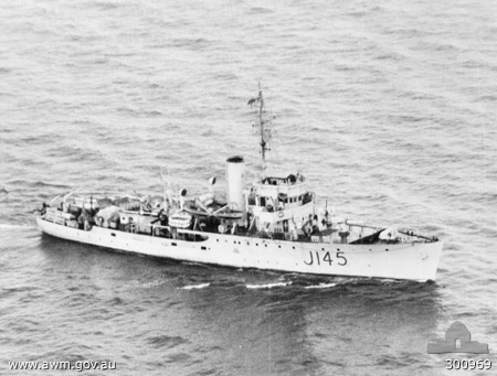 Australian Bathurst class minesweeping sloop HMAS Lismore during 1942.